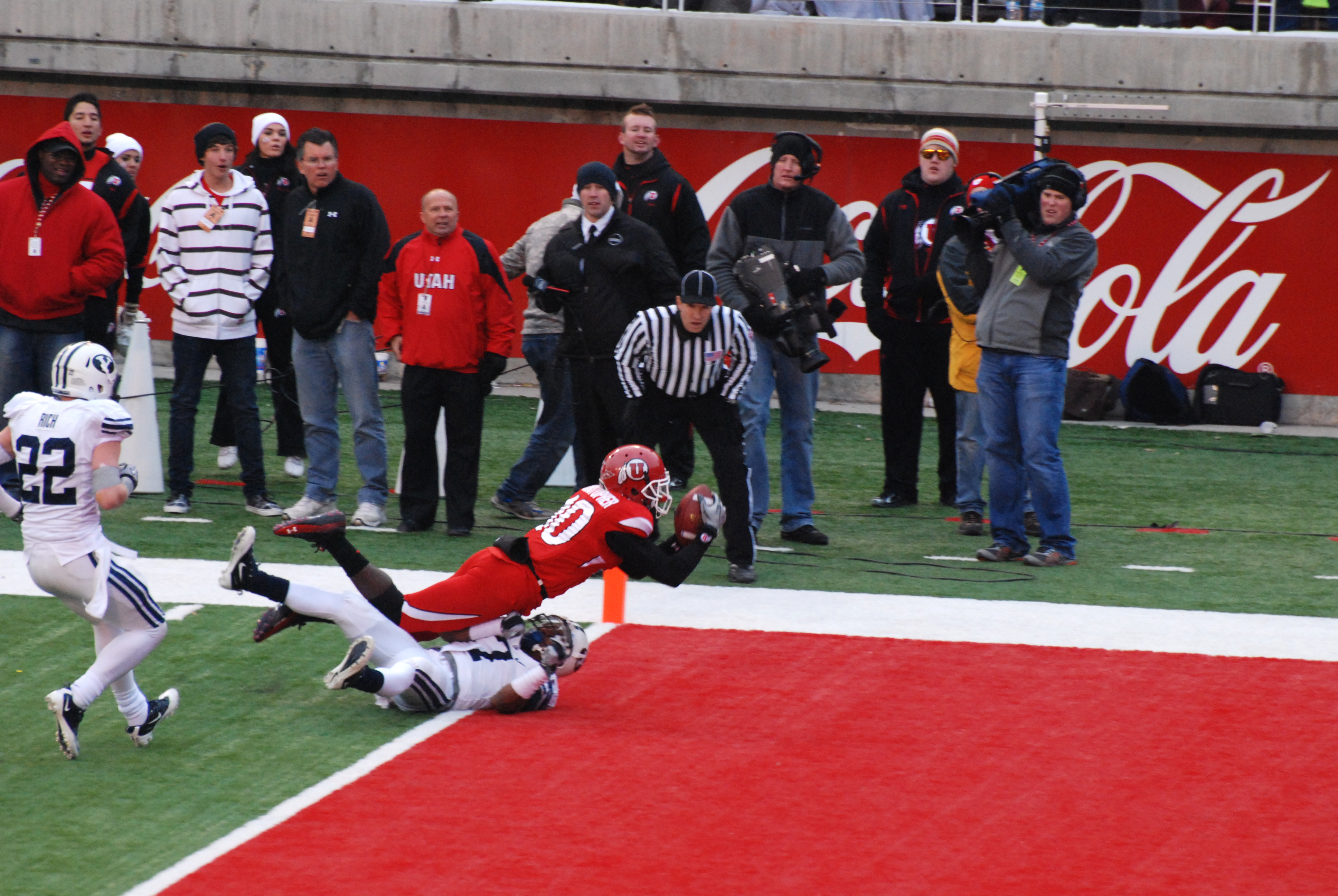 DeVonte Christopher scores a touchdown against BYU